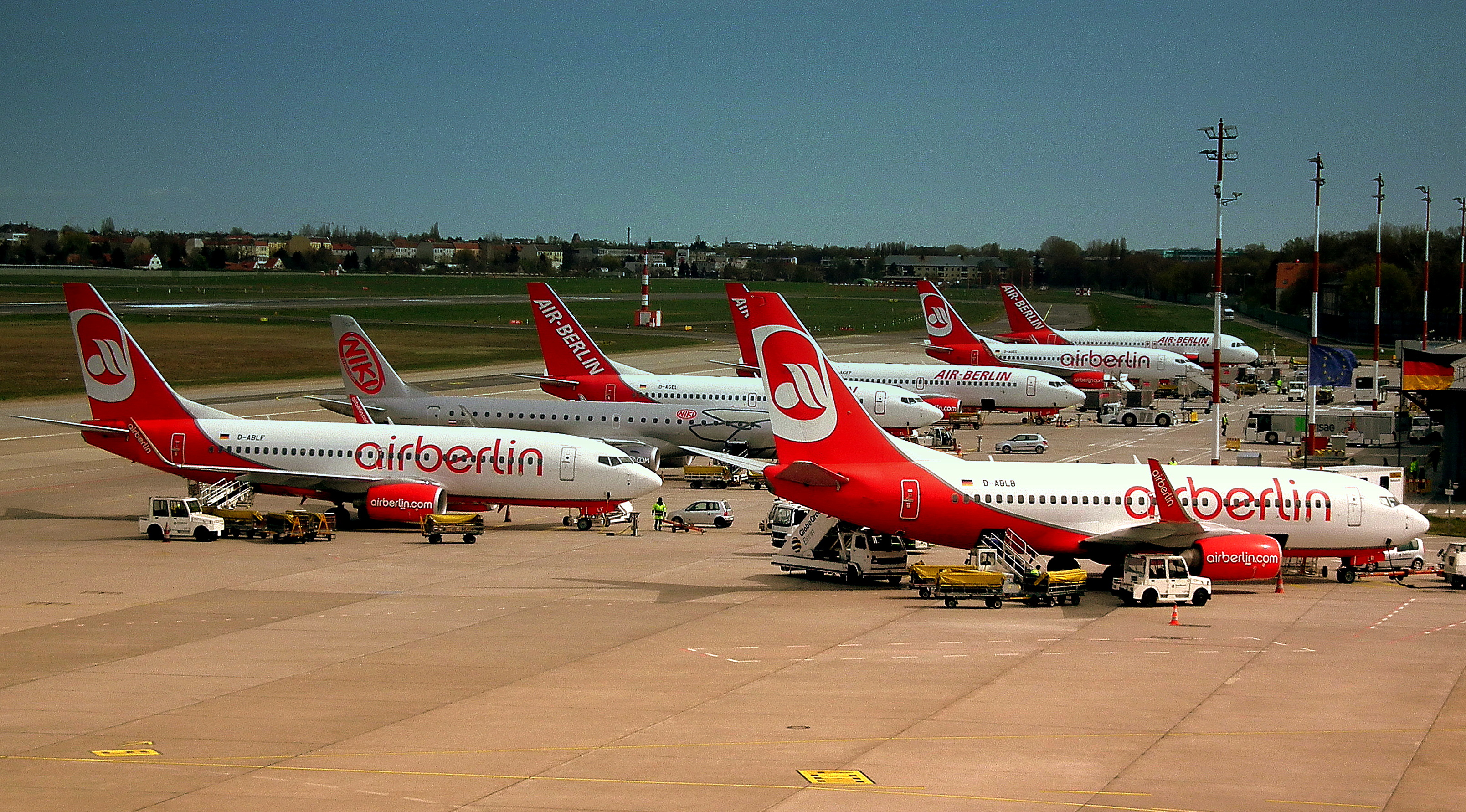 AIR BERLIN LINE UP AT TEGAL FLUGHAFEN BERLIN GERMANY APRIL 2012